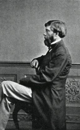 Picture of Alexander William Williamson (* 1. Mai 1824 in Wandsworth; † 6. Mai 1904 in Haslemere)